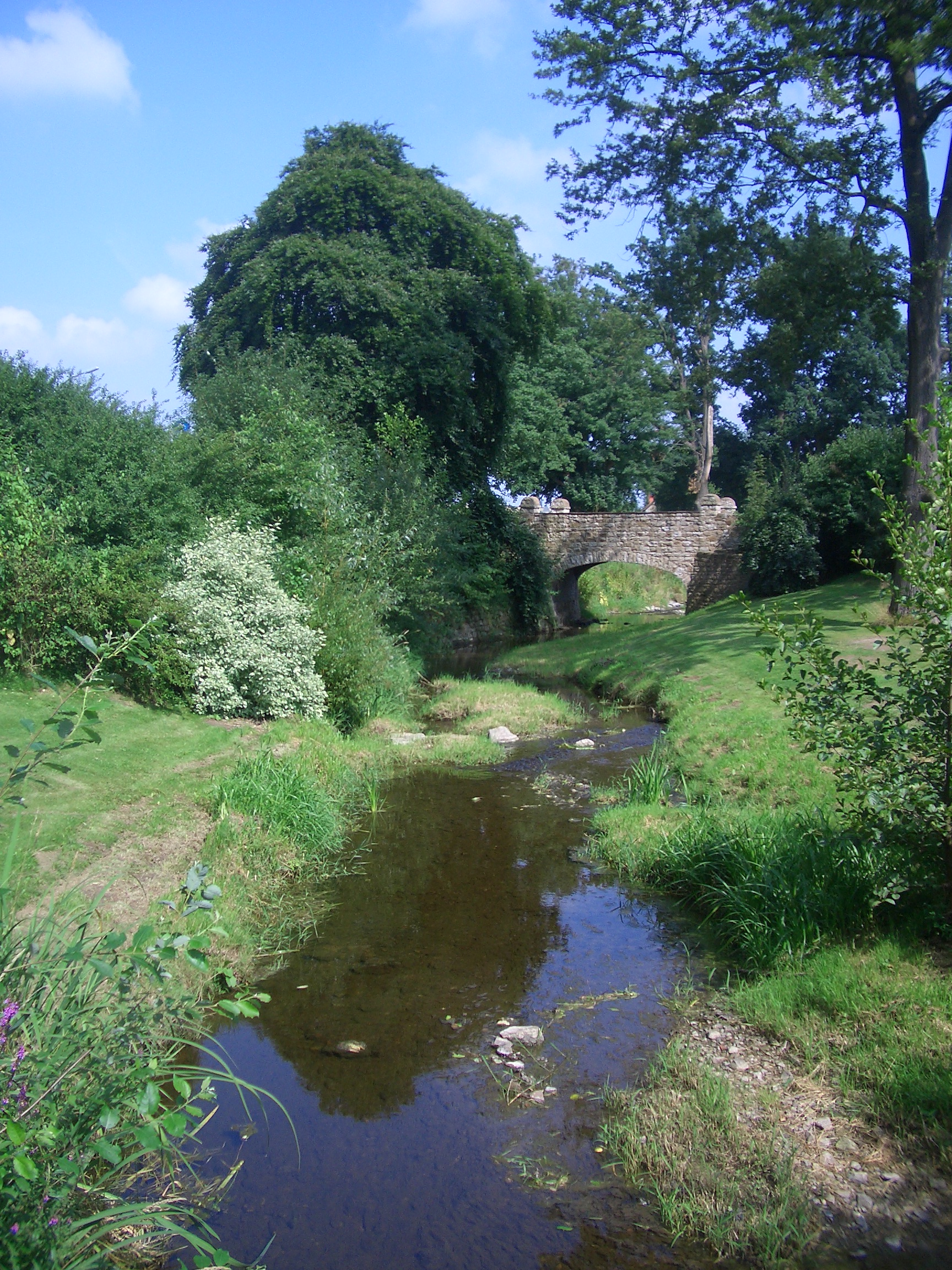 garden of Schloss Schwoebber in Arzen near Hameln, Germany